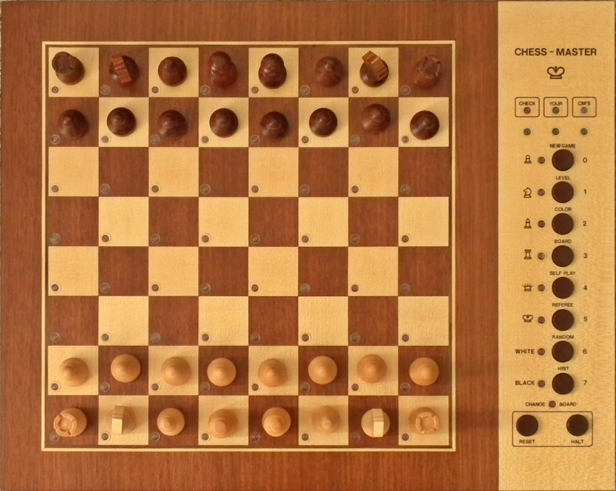 East German chess computer CM (Chess-Master)